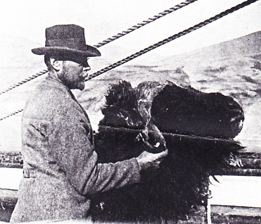 Josef Hammar with a musk ox head aboard the ship Antarctic outside the east coast of Greenland, 1899.